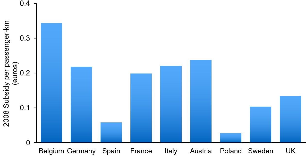 European rail subsidies in euros per passenger-km using data from